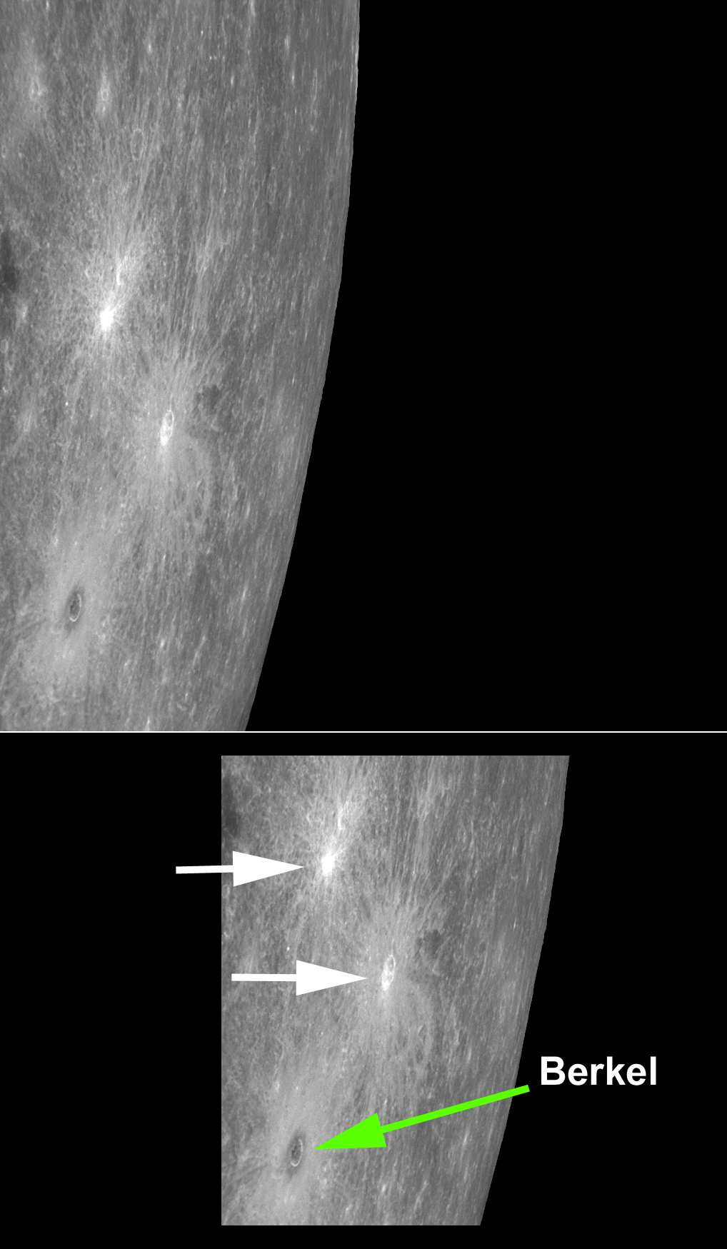 Date Acquired: October 6, 2008 Image Mission Elapsed Time (MET): 131774056 Instrument: Narrow Angle Camera (NAC) of the Mercury Dual Imaging System (MDIS) Resolution: 540 meters/pixel (0.34 miles) Scale: Berkel is 21 kilometers (13 miles) in diameter Spacecraft Altitude: 21,200 kilometers (13,200 miles) Of Interest: The crater in the lower left corner of this image is Berkel, recently named for Turkish painter and printmaker Sabri Berkel (1909-1993). The crater contains dark material in its center and in a ring immediately surrounding it. Moreover, Berkel is surrounded by a blanket of bright ejecta and a system of bright rays. Other craters on Mercury’s surface, such as Basho, also exhibit both bright rays and dark halos. In contrast, two neighboring craters in this image (indicated by white arrows) have bright rays but lack dark halos. Members of the MESSENGER Science Team are investigating why some craters contain dark material while others do not, and what that means for the nature and structure of Mercury's crust.